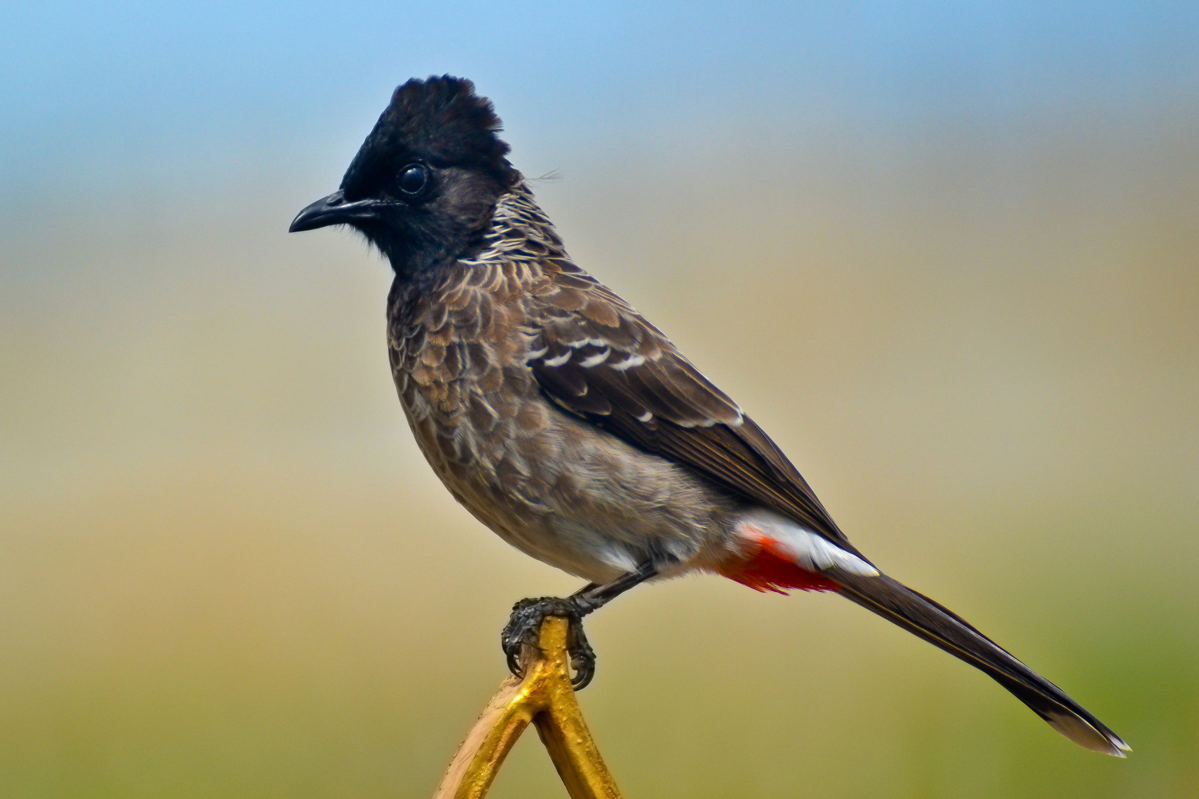 A Red-vented Bulbul (Pycnonotus cafer) perched on the front gate of a house in Tirunelveli, Tamil Nadu, India